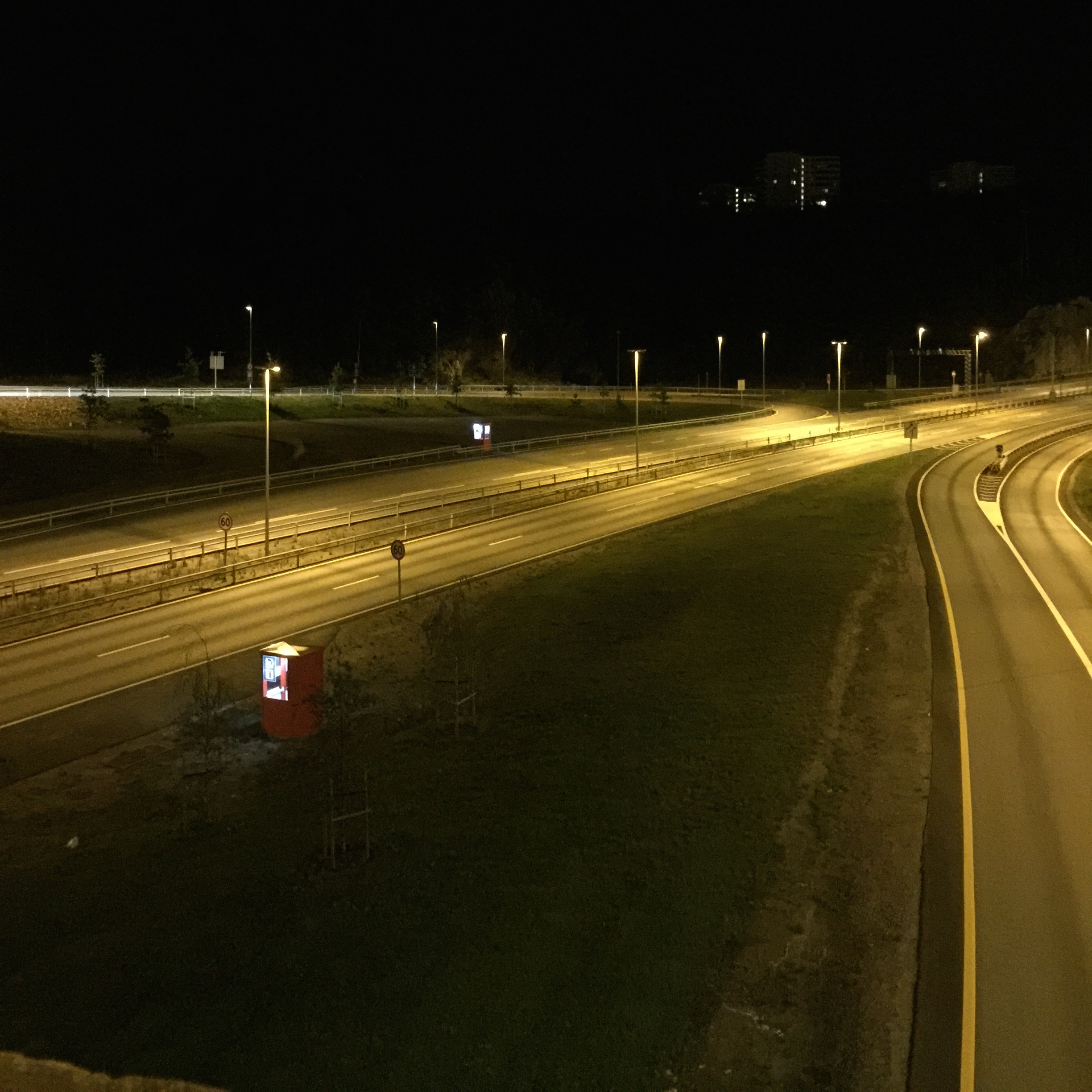 E39 with Hannevika and Tinnheia in Kristiansand